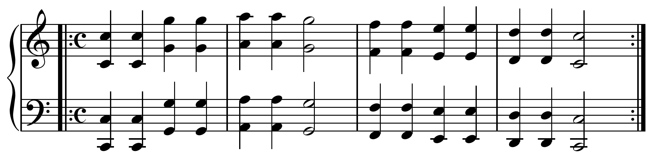 "Twinkle Twinkle Little Star" melody doubled in four octaves: consonant and equivalent. Created by Hyacinth (talk) 14:52, 26 July 2009 using Sibelius 5.